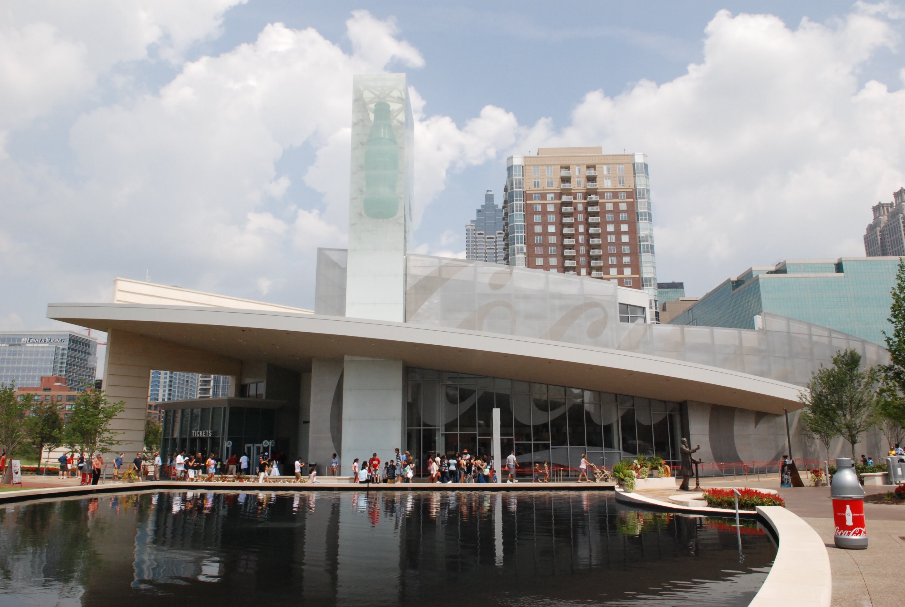 World of Coca-cola, Atlanta